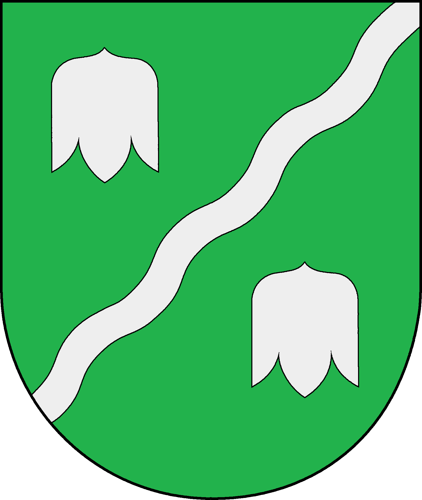 Coat of arms of the municipality Winseldorf in Schleswig-Holstein, Germany.